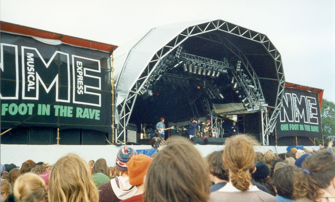 Jamiroquai at Glastonbury Festival 1993.